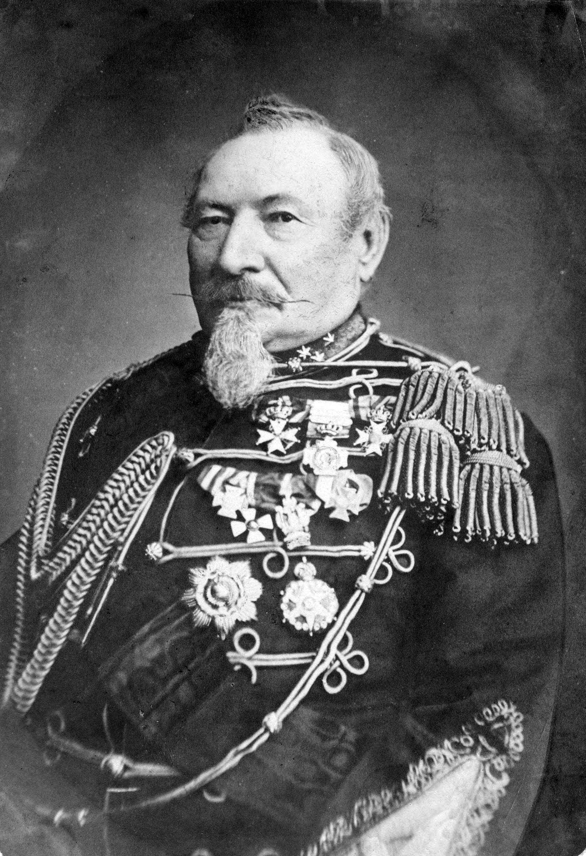 General-Major Johannes Cornelis Jacobus Smits